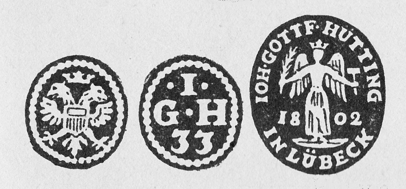 Pewter marks of Johann Gottfried Hütting, after 1802: Town mark, master mark, "Engelmarke".